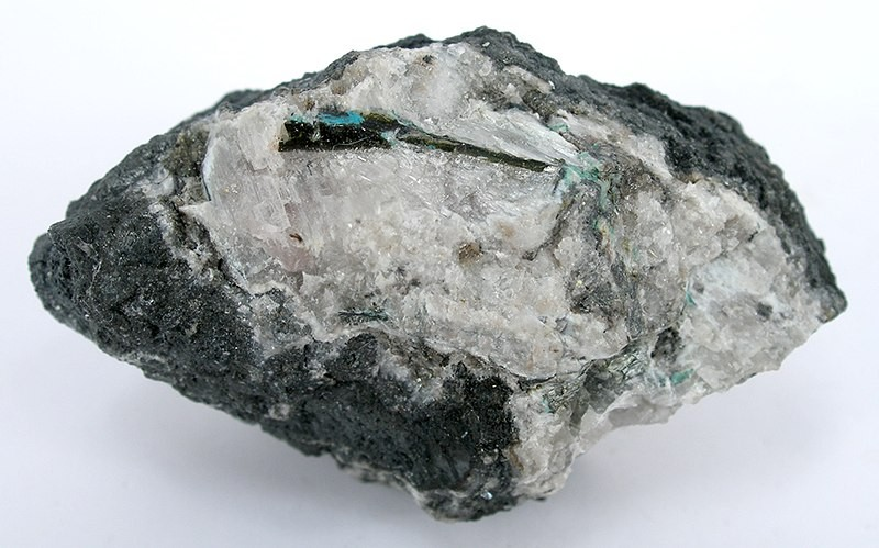 Chloroxiphite, Diaboleite, Mendipite Locality: Higher Pitts Mine, Priddy, Somerset, England, UK (Locality at ) Size: 4.7 x 2.8 x 1.9 cm. This is an important species and locality specimen, featuring a 1.5 cm crystal of Chloroxiphite in Mendipite, with minor blue Diaboleite in association. Its worth something for the Mendipite alone! The chloroxiphite is particularly displayable as well as large. From the miniature rarities suite of Lawrence Conklin, who exchanged it from the American Museum of Natural History. Year of Discovery: 1923 at this, the type locality.